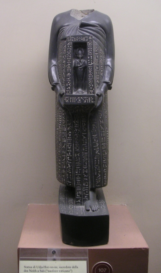 26th or 27th Dynasty, Sais, Egypt-Capital of the 5th Nome, at the time.